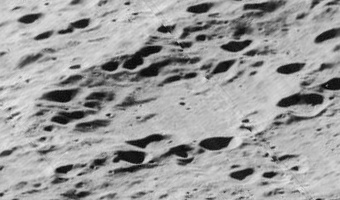 Oblique view of Yamamoto, on the far side of the moon, facing west.